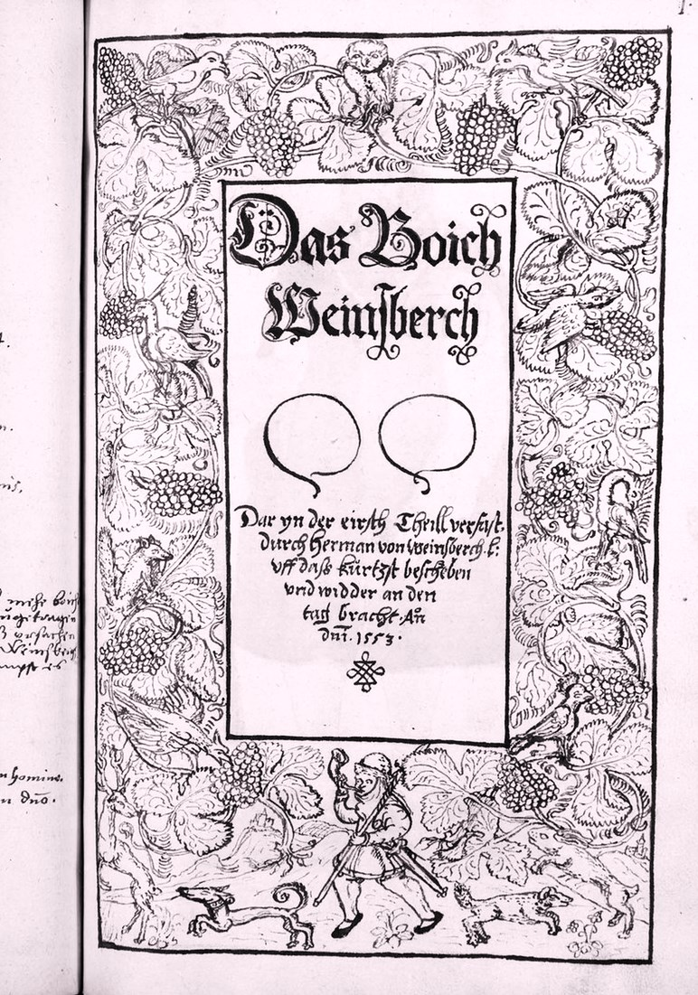 Das Buch Weinsberg, Deckel, 1553